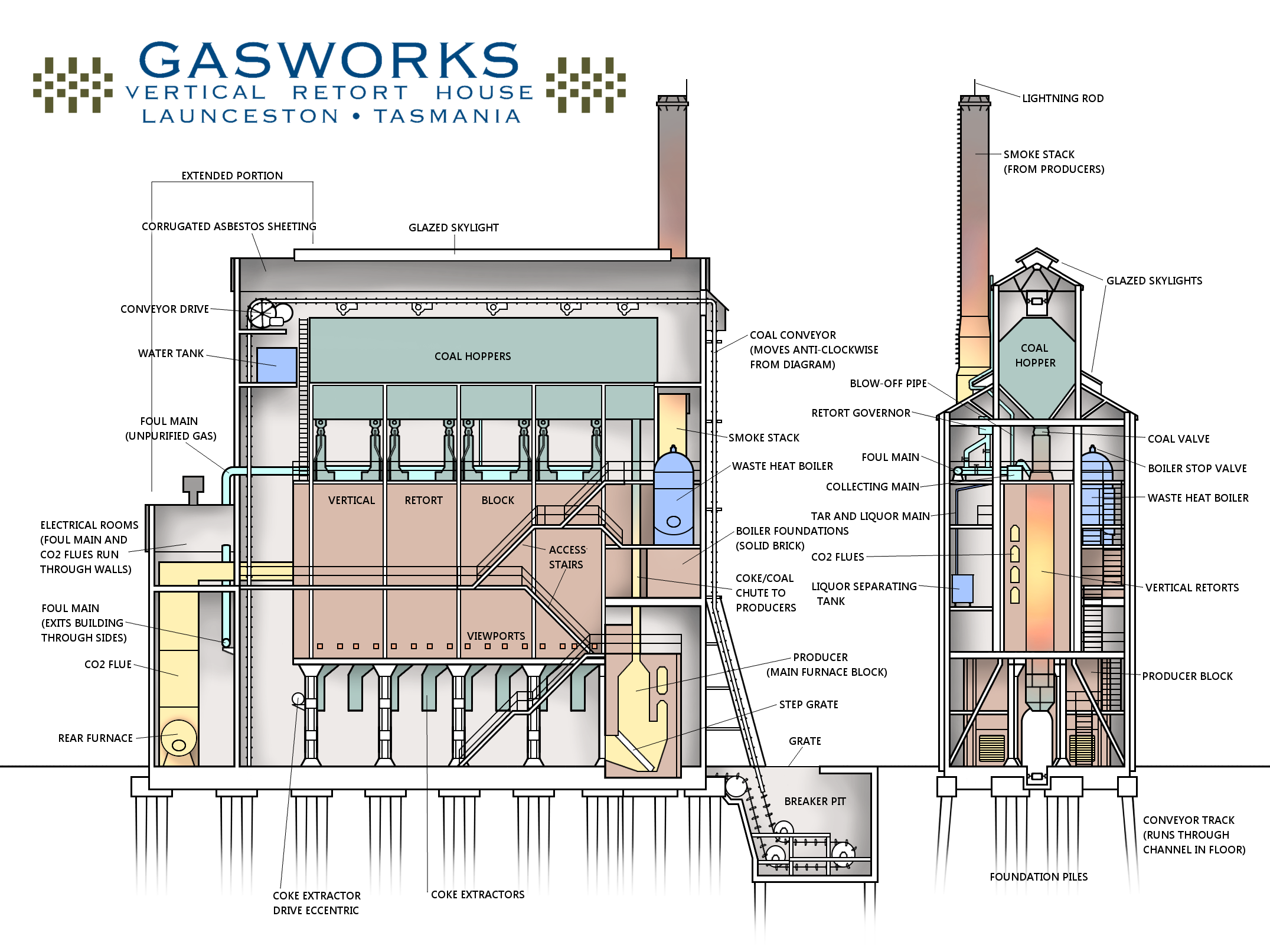 Updated version of side-on and rear elevations, labeled, cutaway diagram of the basic components of Launceston's 1932 Vertical Retort House. Basic colour coding used to distinguish components and proportions of anatomy based on original architectural plans held at the QVMAG. File created using GIMP.